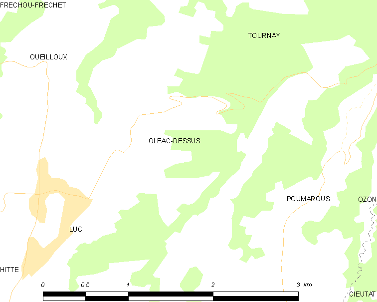 Map of French municipality